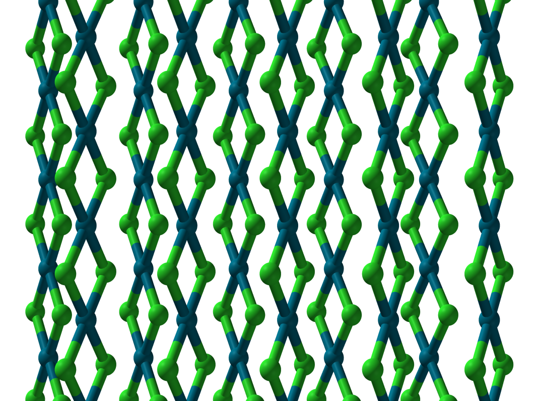 Ball-and-stick model of part of the crystal structure of α-palladium(II) chloride, PdCl2. Structural data from Z Krist. 1938, 100, 189-194.